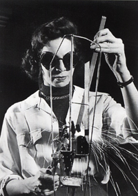 Lin Emery welding at the New York Sculpture Center, circa 1954